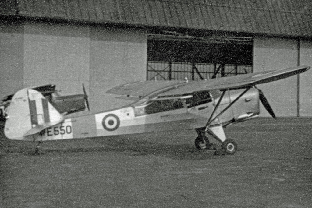 Auster T.7 WE550 of 663 (AOP) Squadron RAF at Ringway Airport Manchester in 1952